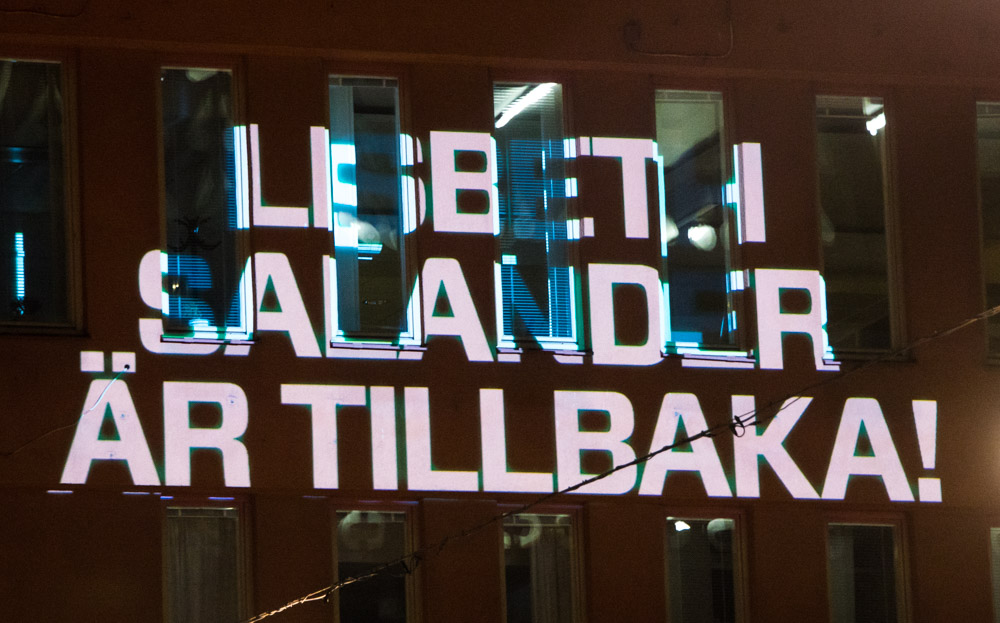 Advertising on the facade facing the world premiere of the book "The Girl in the Spider's Web", August 27, 2015 in Stockholm.